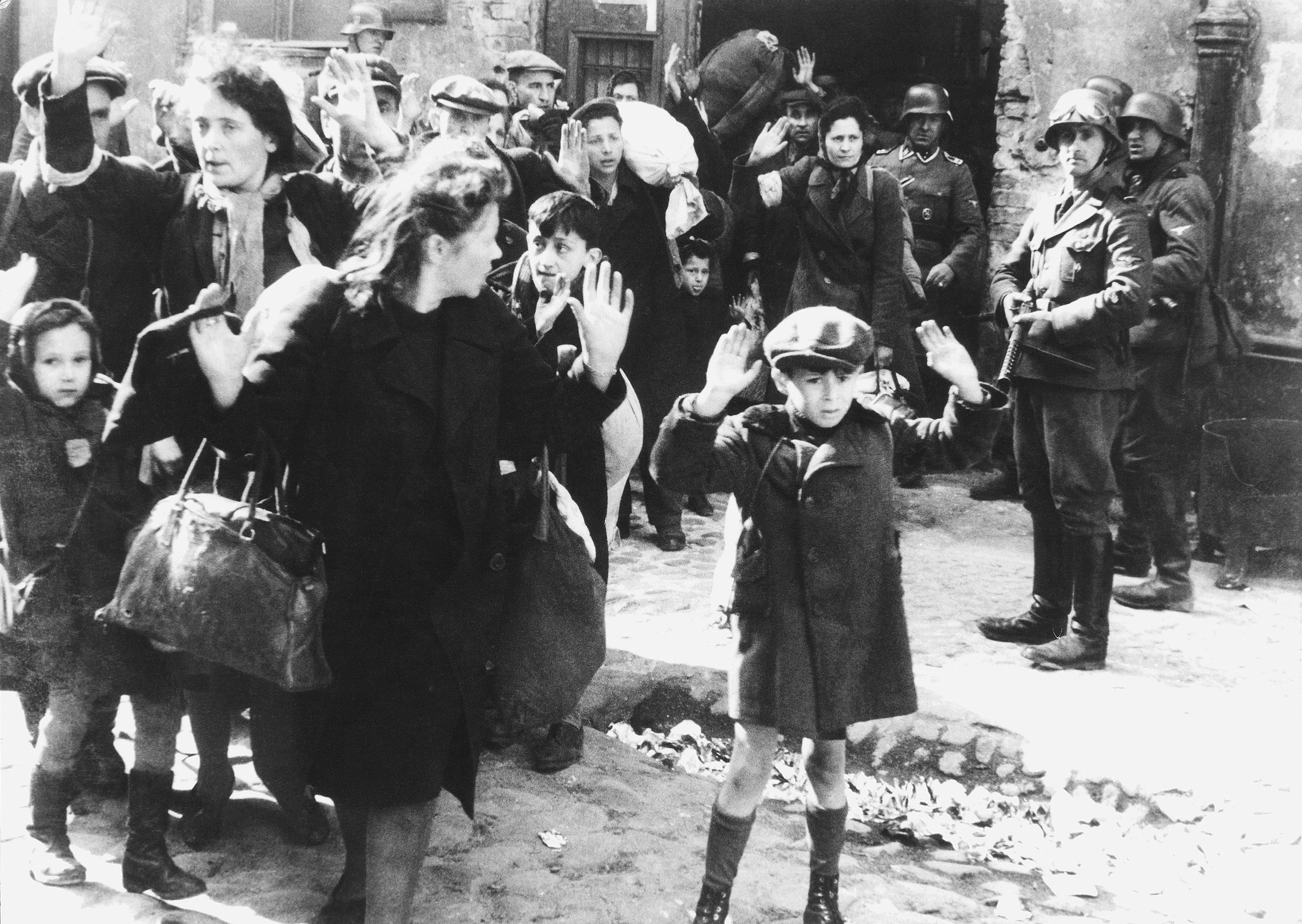 Warsaw Ghetto Uprising (Poland) - Photo from Jürgen Stroop Report to Heinrich Himmler from May 1943. One of the most iconic pictures of World War II.